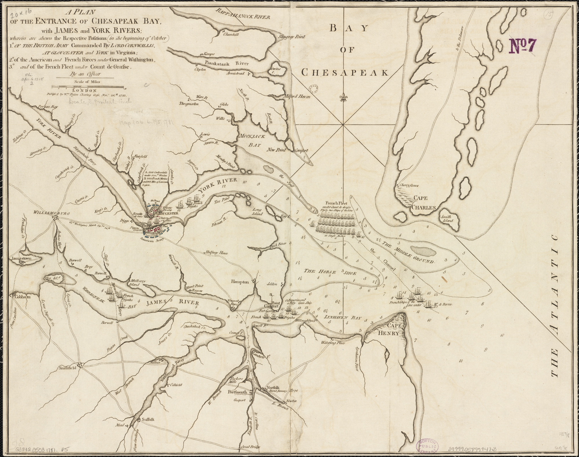 Zoom into this map at . Publisher: Wm. Faden Date: 1781. Location: Yorktown (Va.) Scale: Scale ca. 1:250,000. Call Number: G3842.C5S3 1781.P5